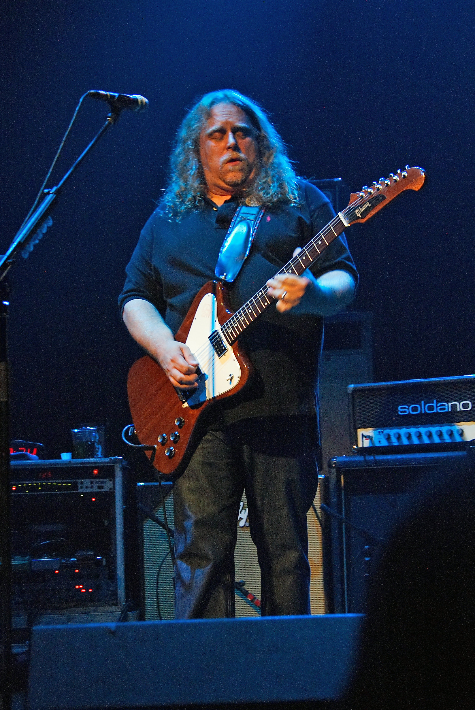 Warren Haynes of Gov't Mule, 2008